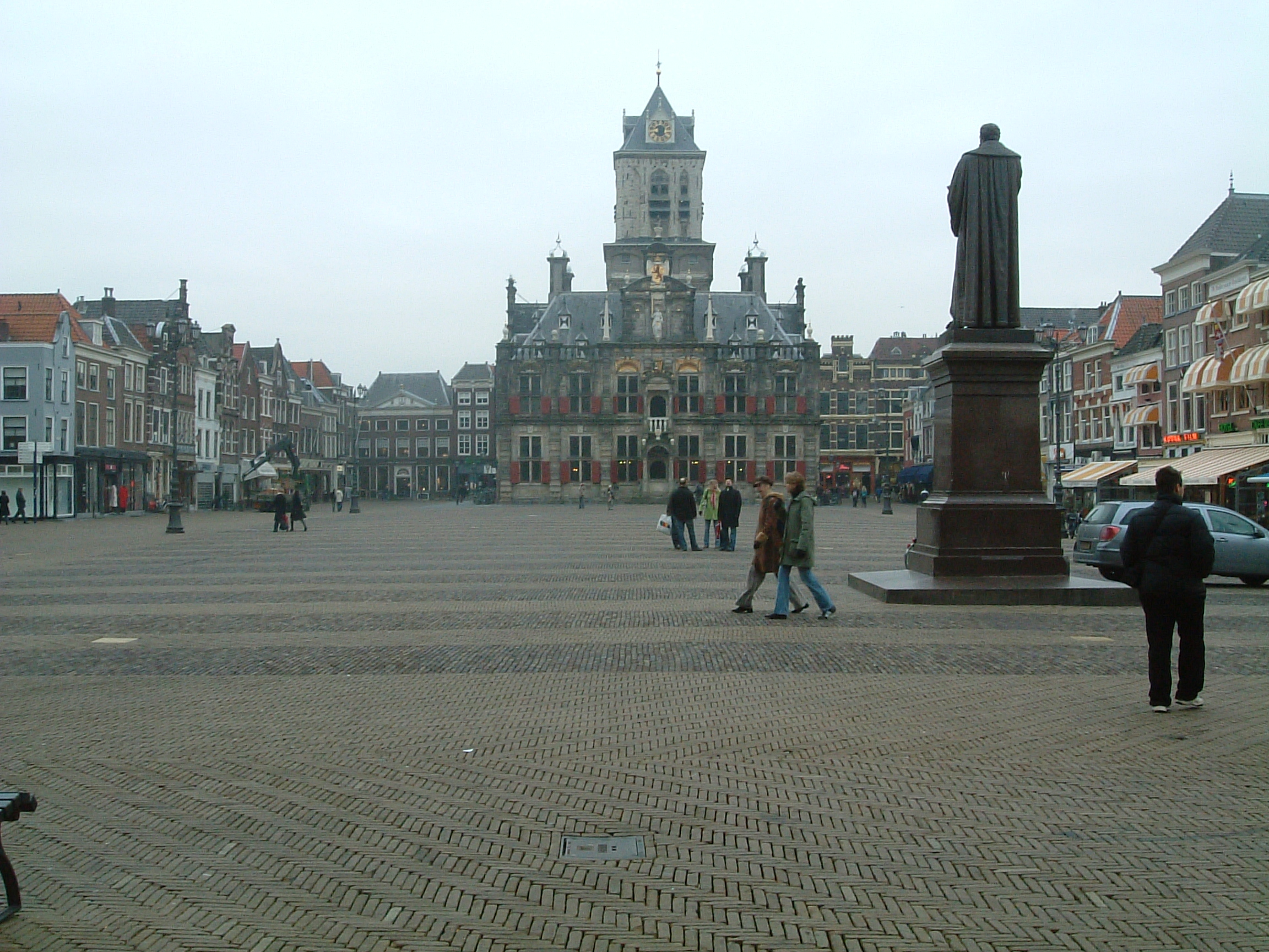 Delft, the Netherlands